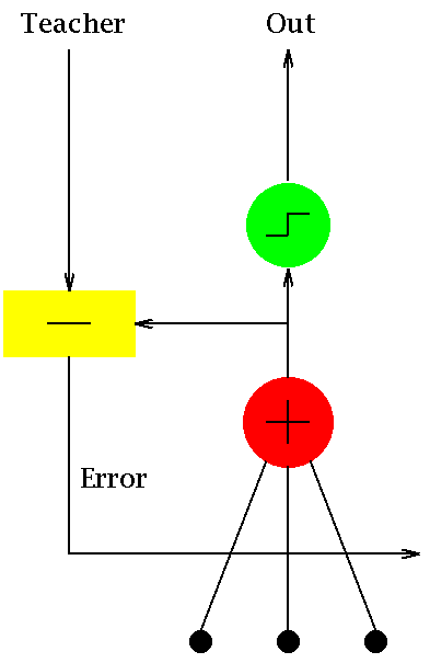 flow chart